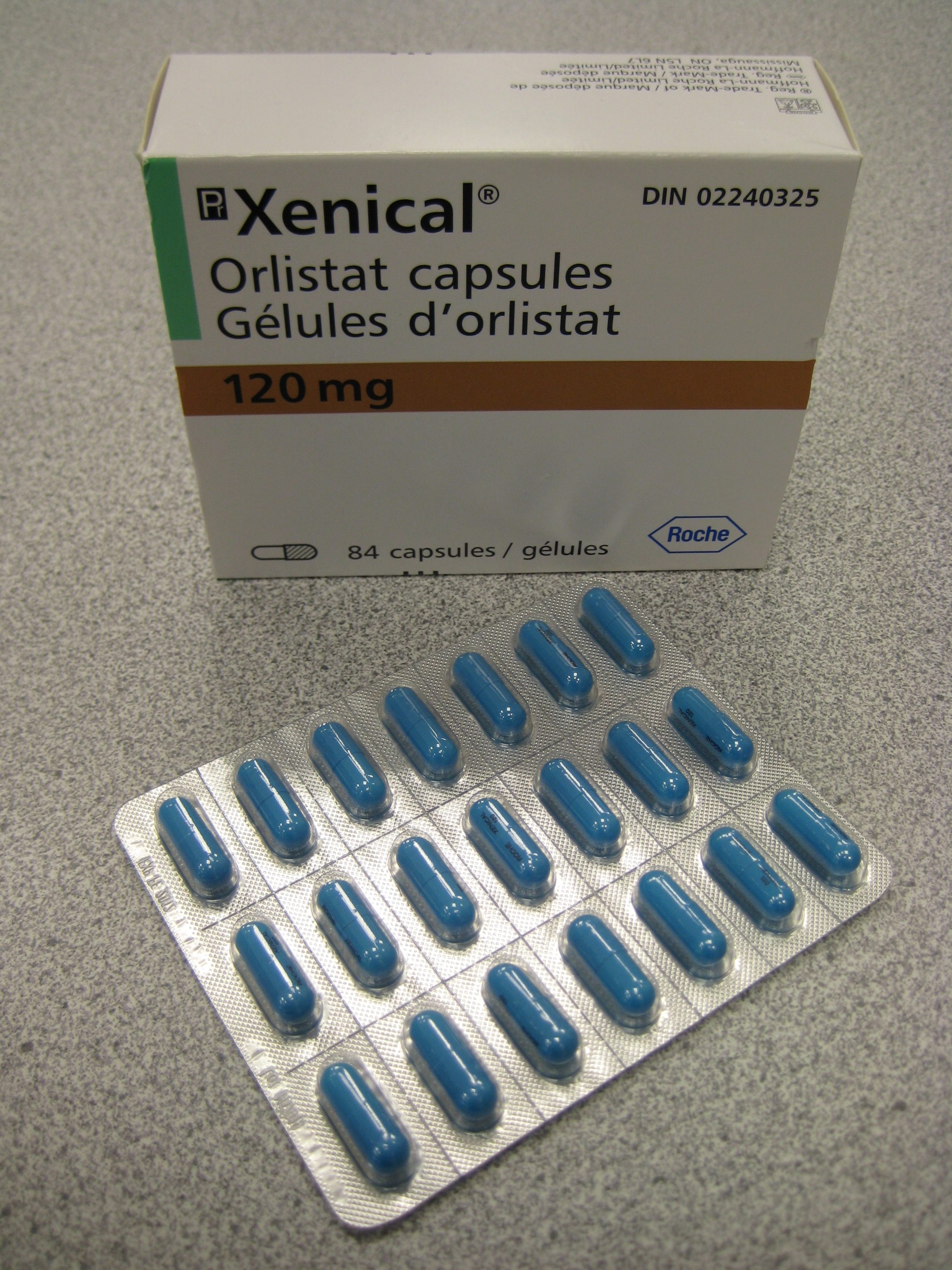 Orlistat (Xenicall) capsules and packaging.